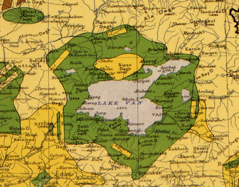 Lake Van in Maunsell's map, Pre-World War I British Ethnographical Map of eastern Turkey in Asia, Syria and western Persia